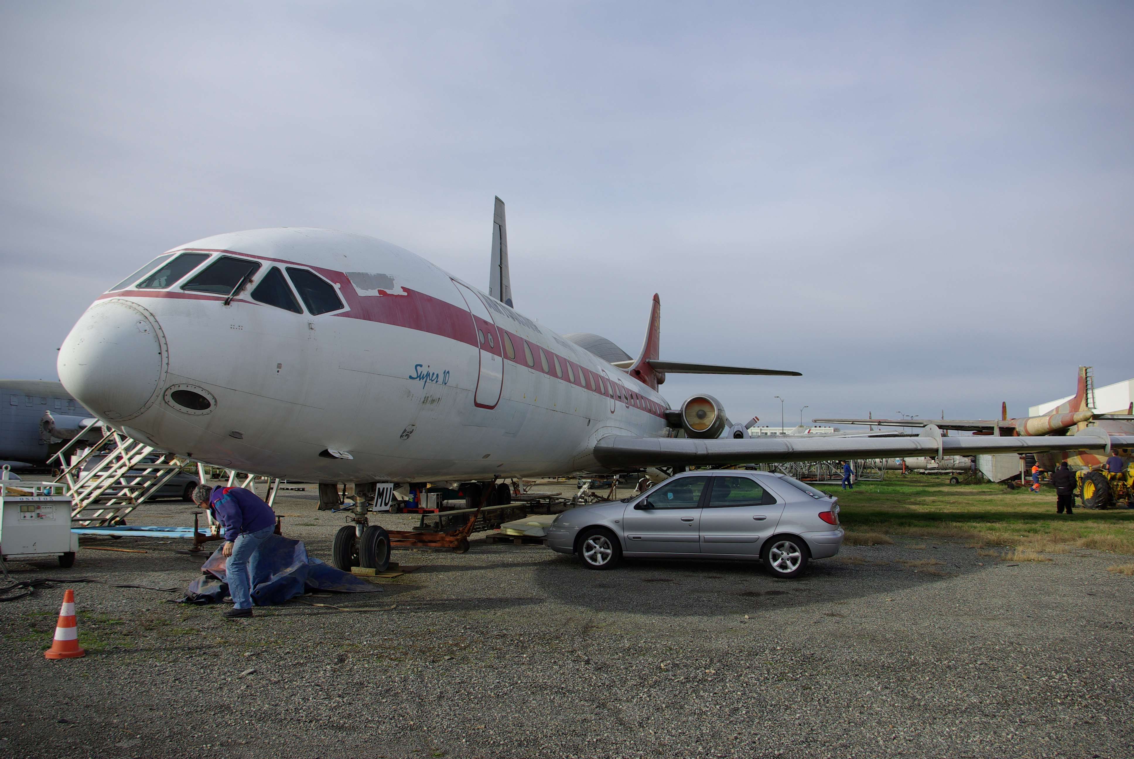 The Sud-Aviation Caravelle Super 10 being restored to the musée des ailes anciennes (Toulouse, France)